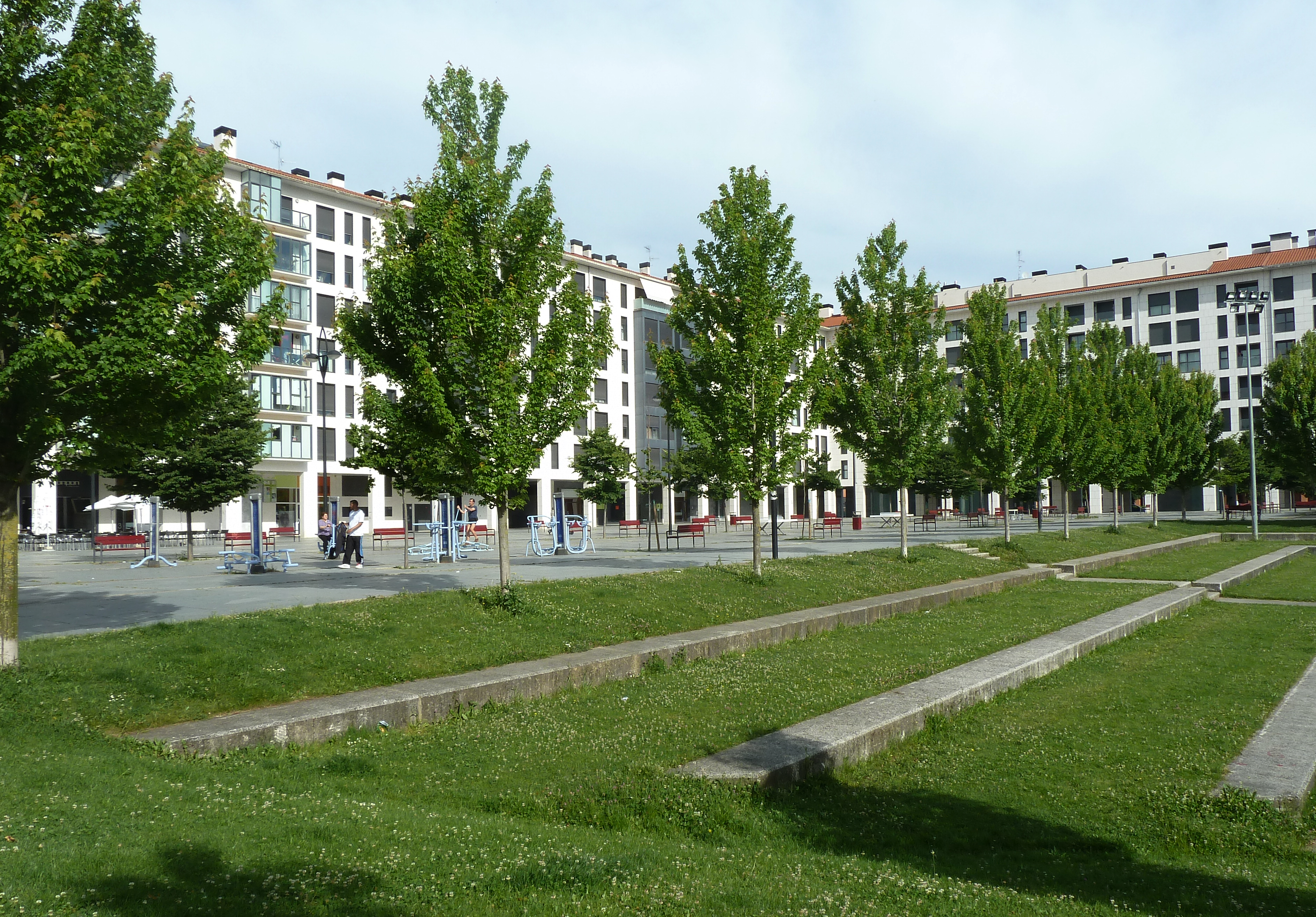 Square built in 2007. Is the newest and largest square in the district of San Jorge/Sanduzelai (Pamplona/Iruña) -about 7.500 m2-. It houses one of the outdoor gyms that the City Council has enabled in various places in the city.